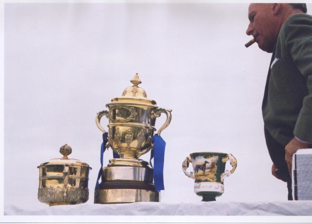 Sir Mark Prescott: Photo by R.W. de Salis, taken at Altcar, last day of the meeting, February 2005. Rodolph 01:53, 22 January 2007 (UTC)